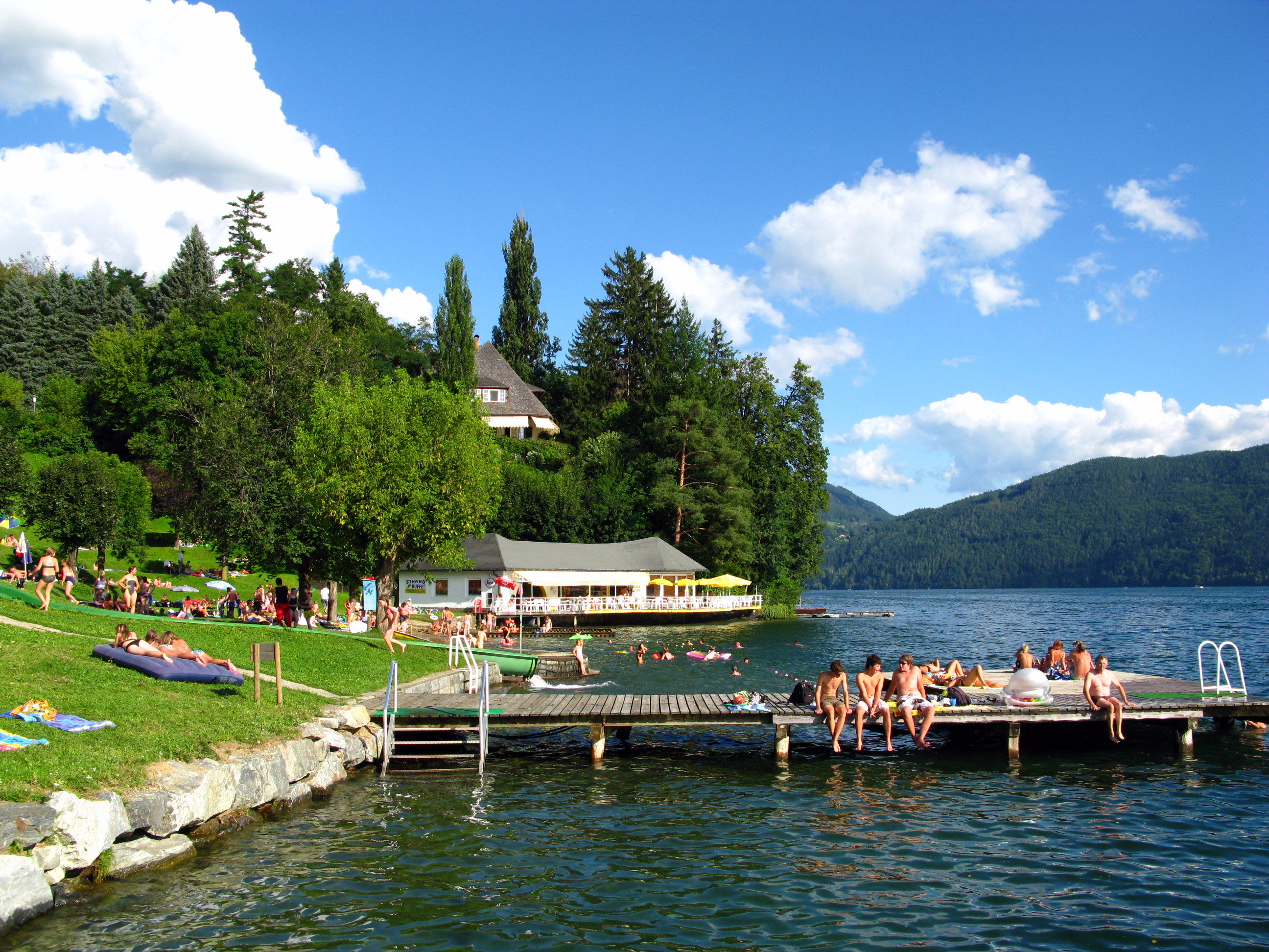 Beach of the municipally in Dellach at Lake Millstatt in Carinthia / Austria / EU. In the background the old boat house of the "dream villa", now the lido buffet. Rear right the Millstätter Lake Ridge.